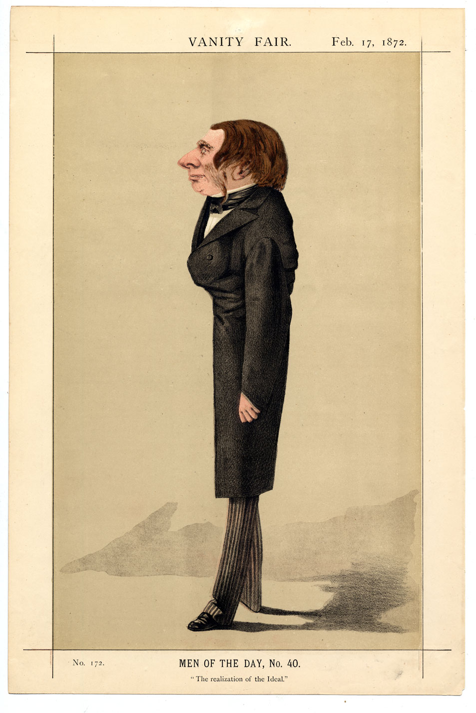 Caricature of John Ruskin. Caption read "The realisation of the Ideal".